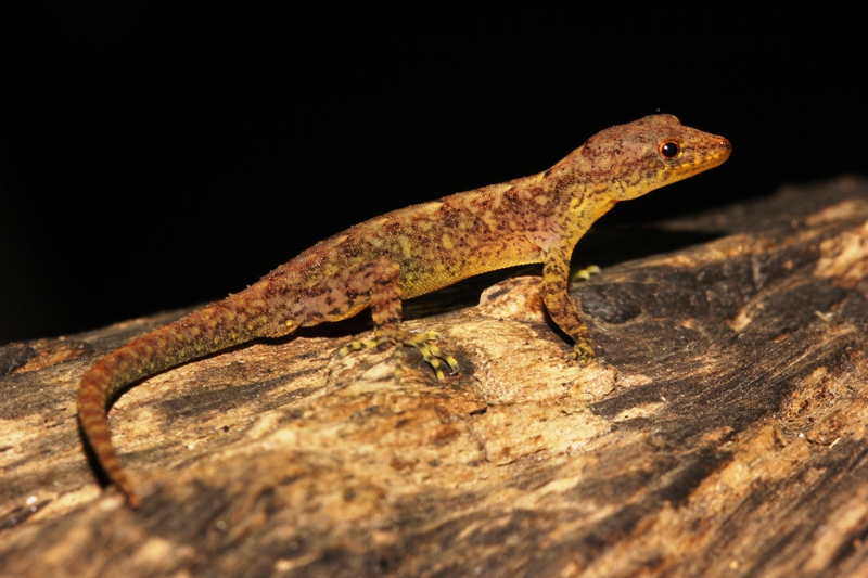 This species is widely distributed in the western parts of Maharashtra, recorded from the coastal area to up on the hills of the Western Ghats below the elevation 600 m from the sea level. Type locality of this gecko is Bhira, near Tamhini, Pune district, Maharashtra, India